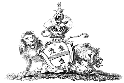 Arms of Fermor (Earl of Pomfret): Argent, a fess sable between three lion's heads erased gules. Source: Catton's English Peerage, 1790